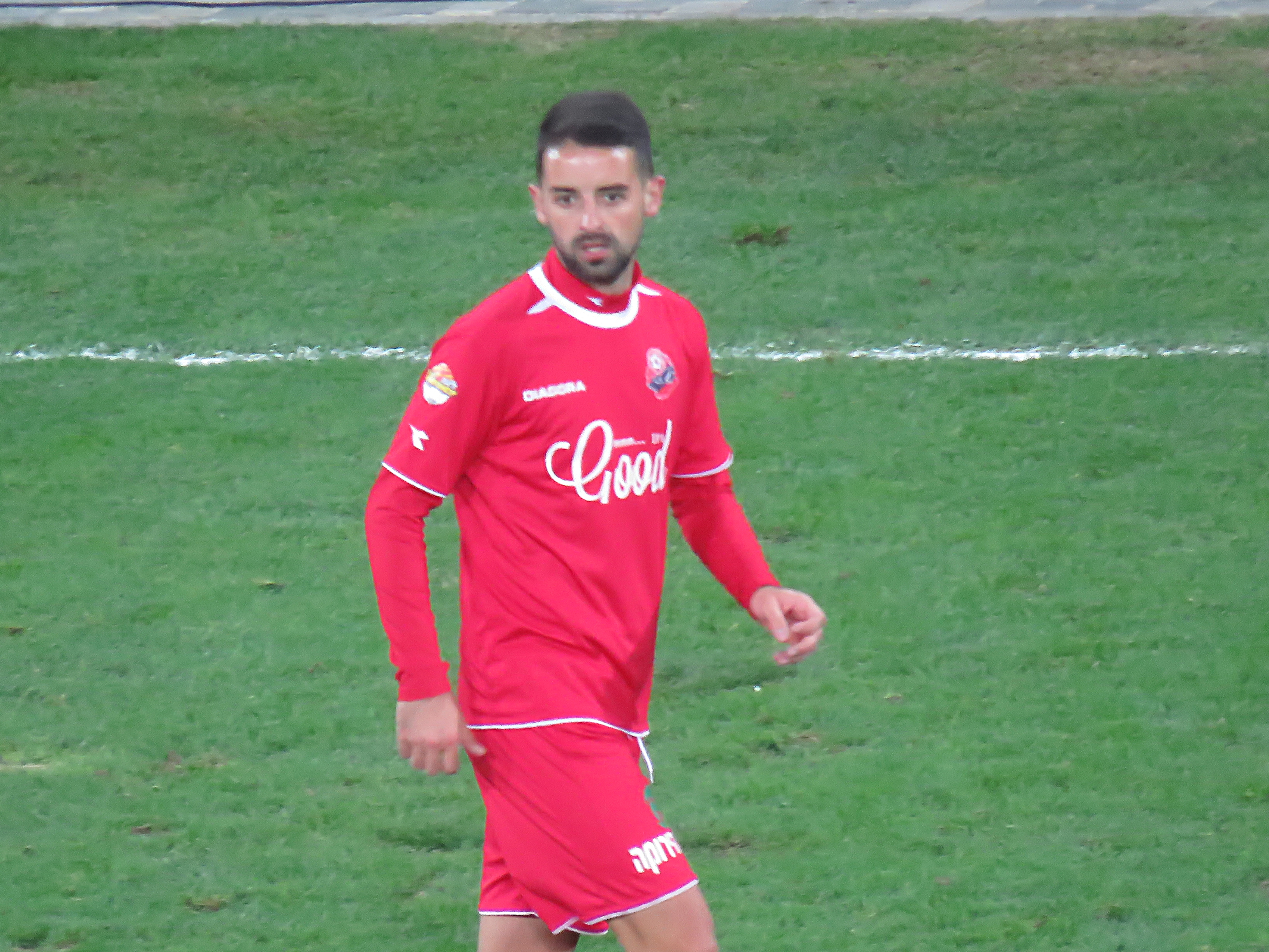 Maccabi Haifa vs. Hapoel Haifa - January 27, 2016